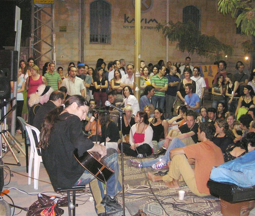 Smilansky street festival 2007